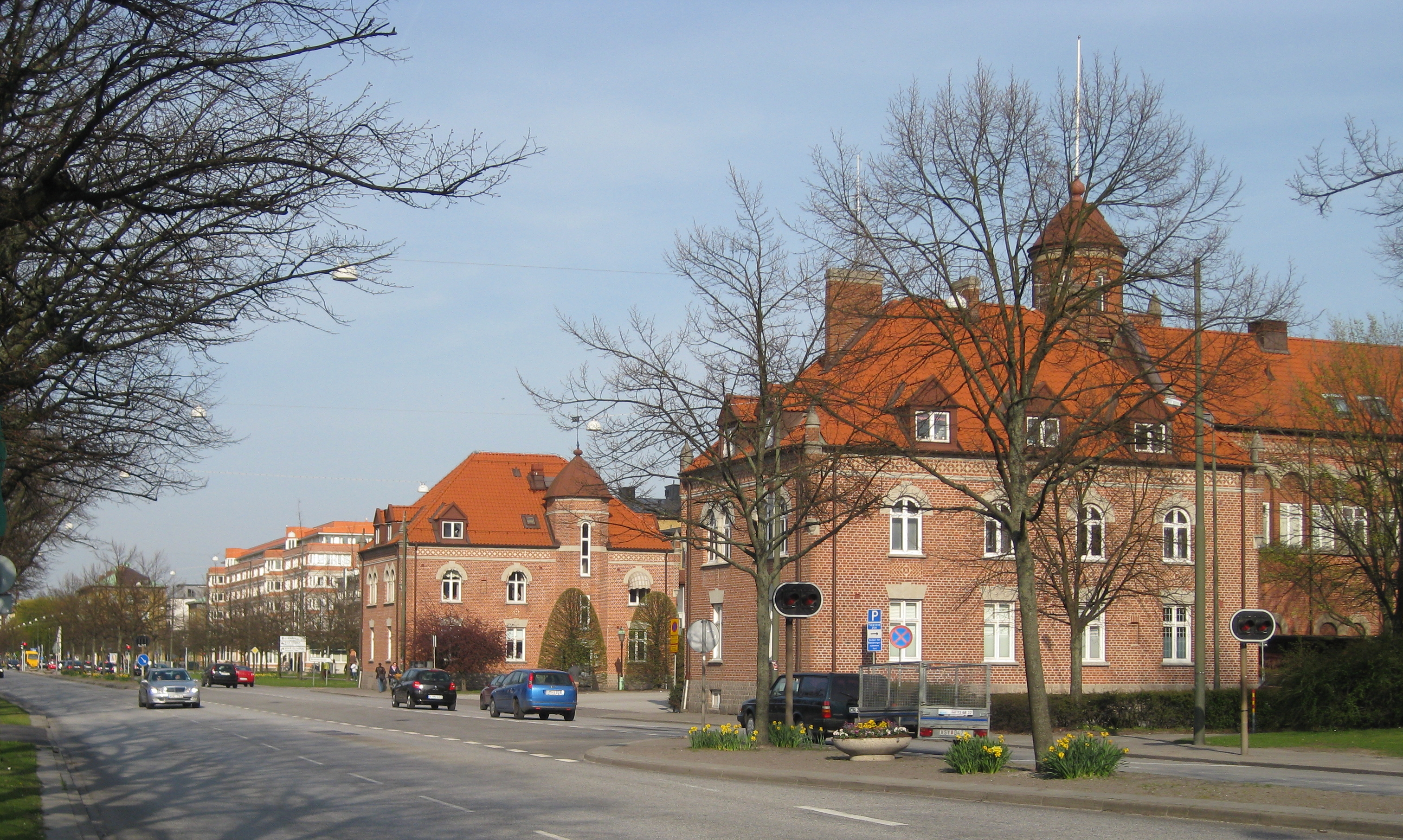 Drottninggatan ( Queen street ) in Malmö, Sweden